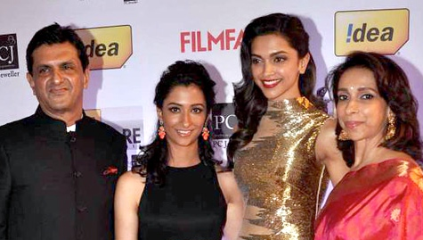 Indian actress Deepika Padukone with her family at the 59th Filmfare Awards in 2014